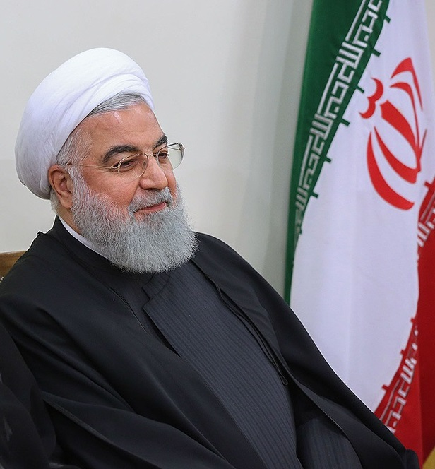 Hassan Rouhani in Beyt Rahbari